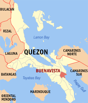 Map of Quezon showing the location of Buenavista